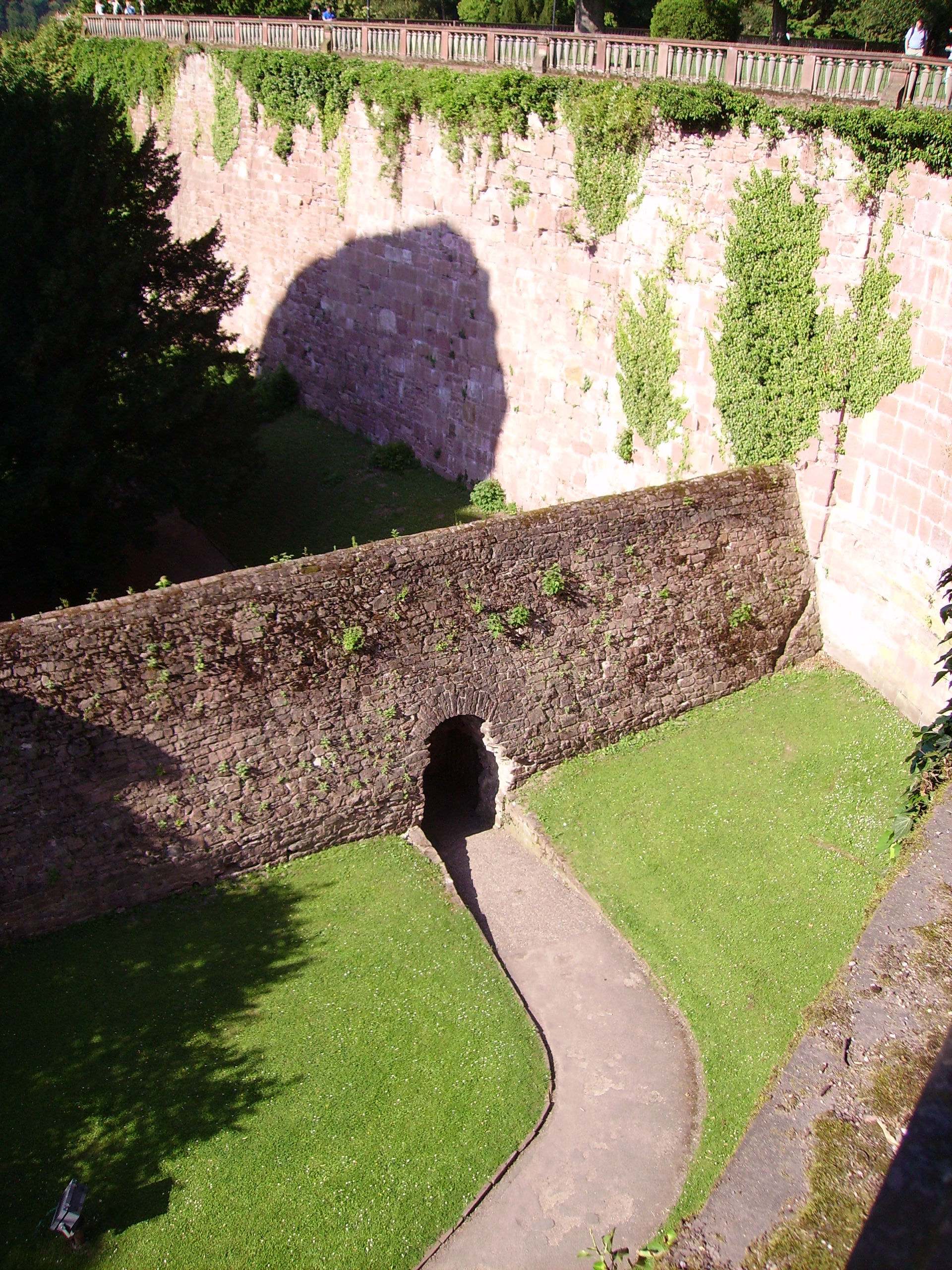 part of Heidelberg castle (Heidelberger Schloss)